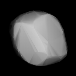 3D convex shape model of 1604 Tombaugh, computed using light curve inversion techniques. J. Hanuš, J. Ďurech, M. Brož, B. D. Warner (June 2011). "A study of asteroid pole-latitude distribution based on an extended set of shape models derived by the lightcurve inversion method". Astronomy and Astrophysics 530: A134. ISSN 0004-6361. arXiv